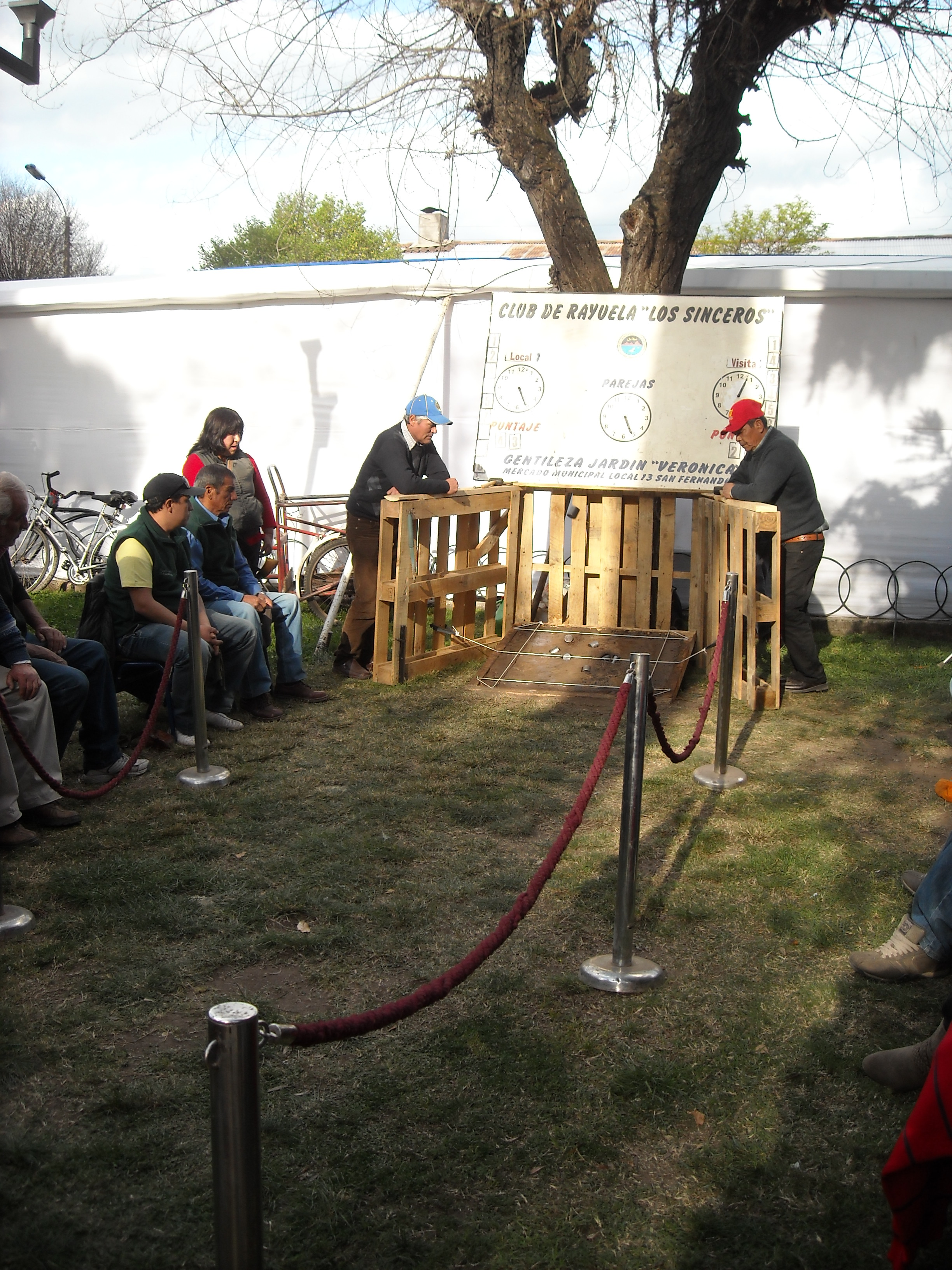 Rayuela game in the central plaza of San Fernando, VI Region, Chile on September 17, of 2012.